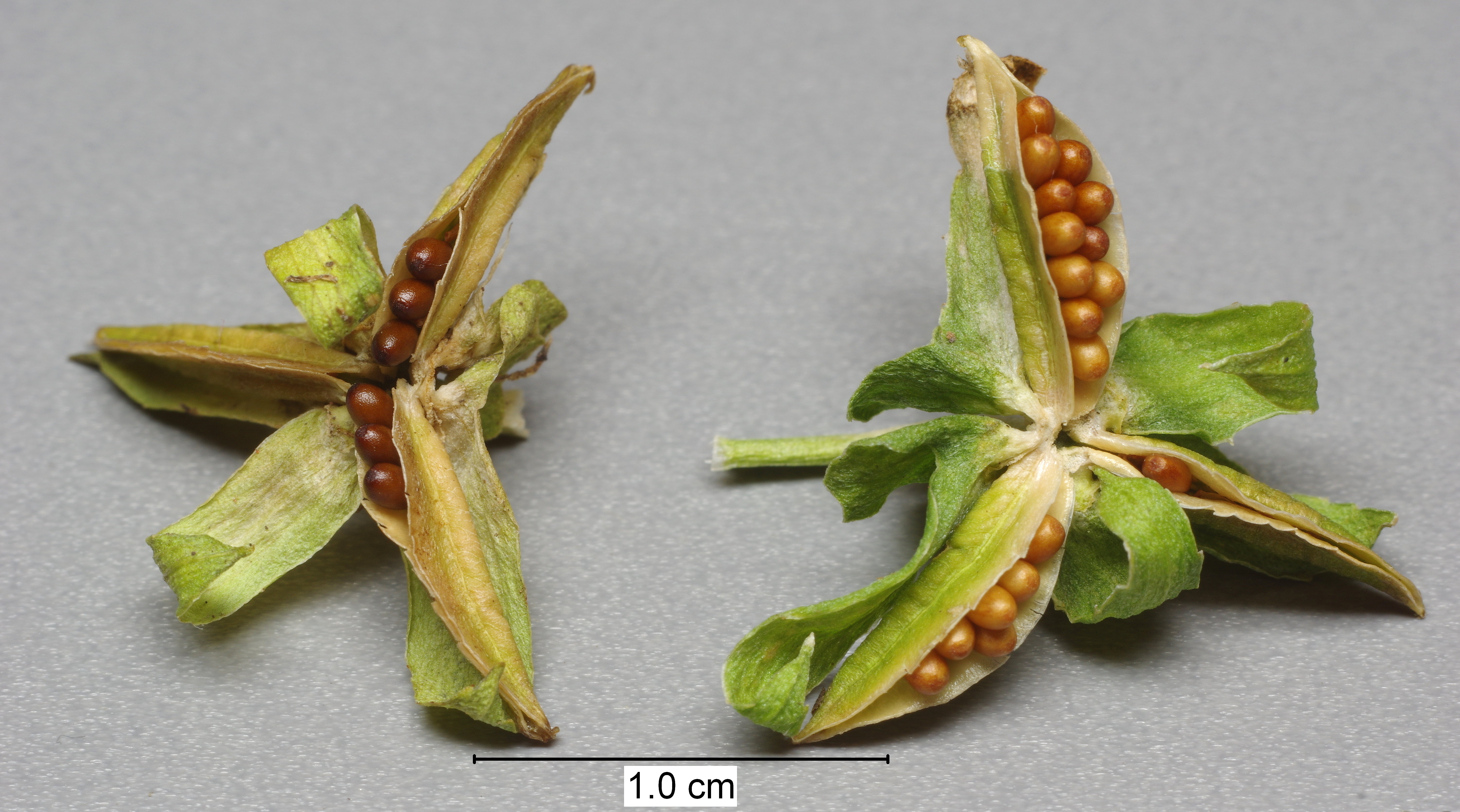 Seed capsule of cultivated Pansy